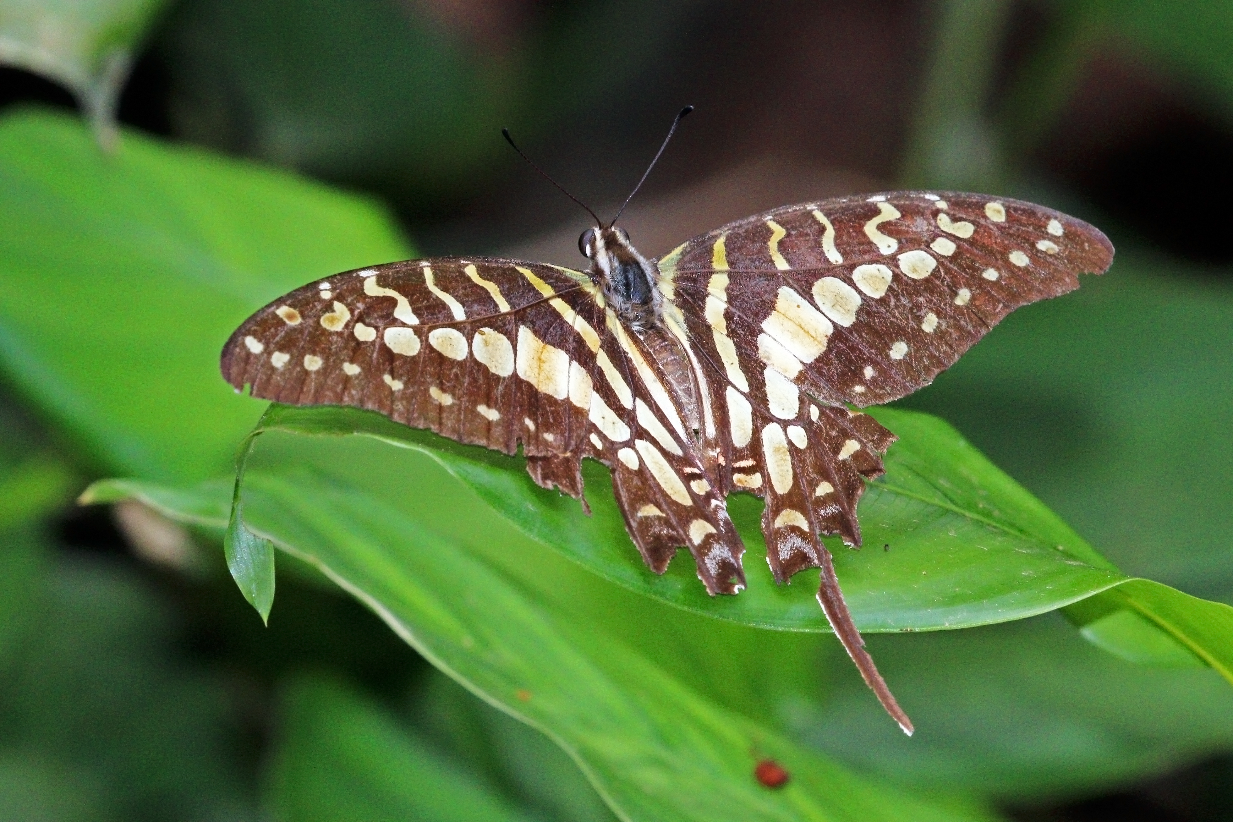 Large striped swordtail butterfly (Graphium antheus) mature, Bobiri Forest, Ghana